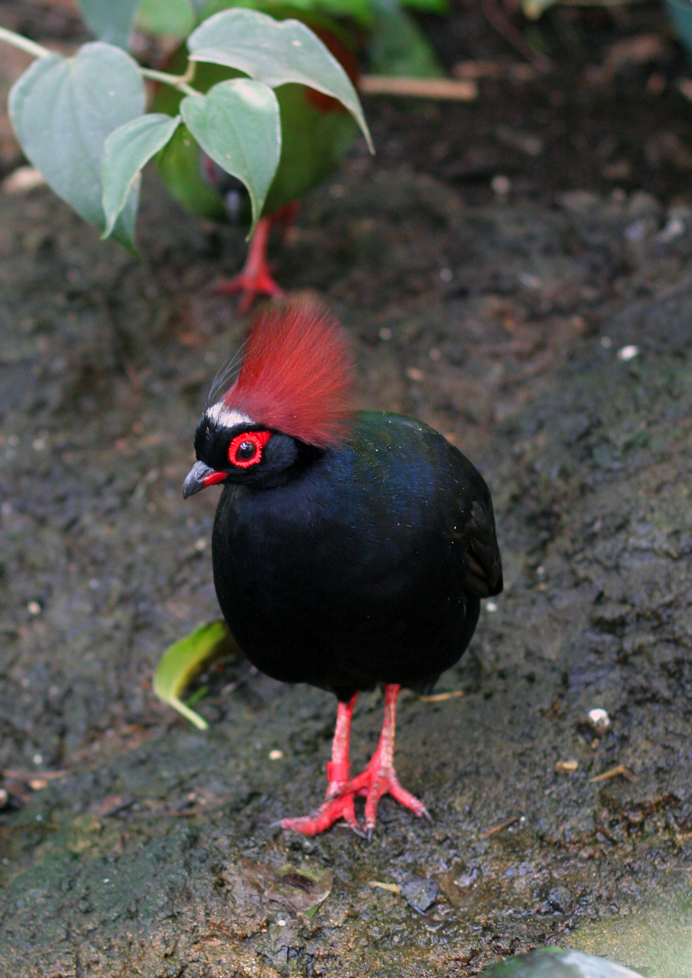 A male Crested Wood Partridge (also known as the Crested Partridge) at Toronto Zoo, Canada.